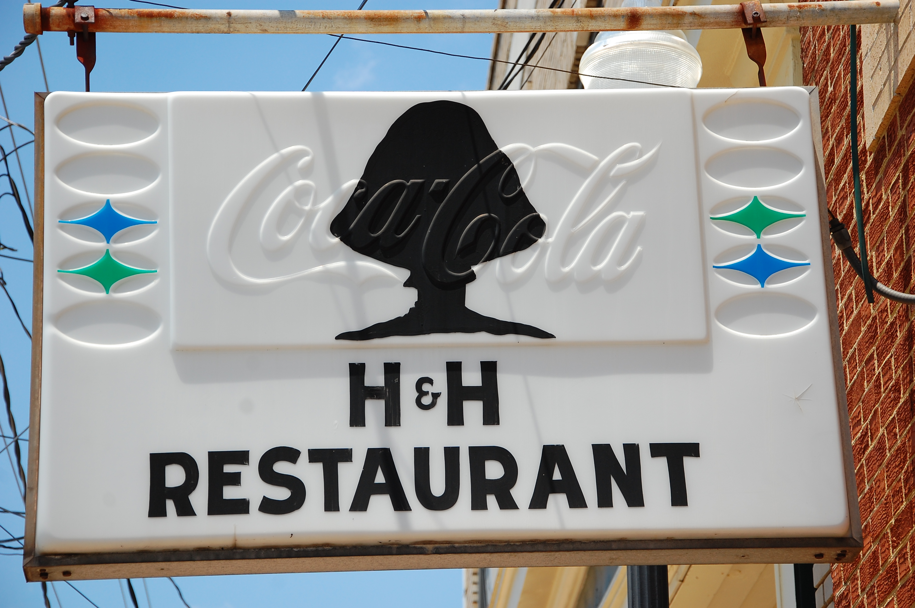 Sign outside H&H Restaurant in Macon, Georgia